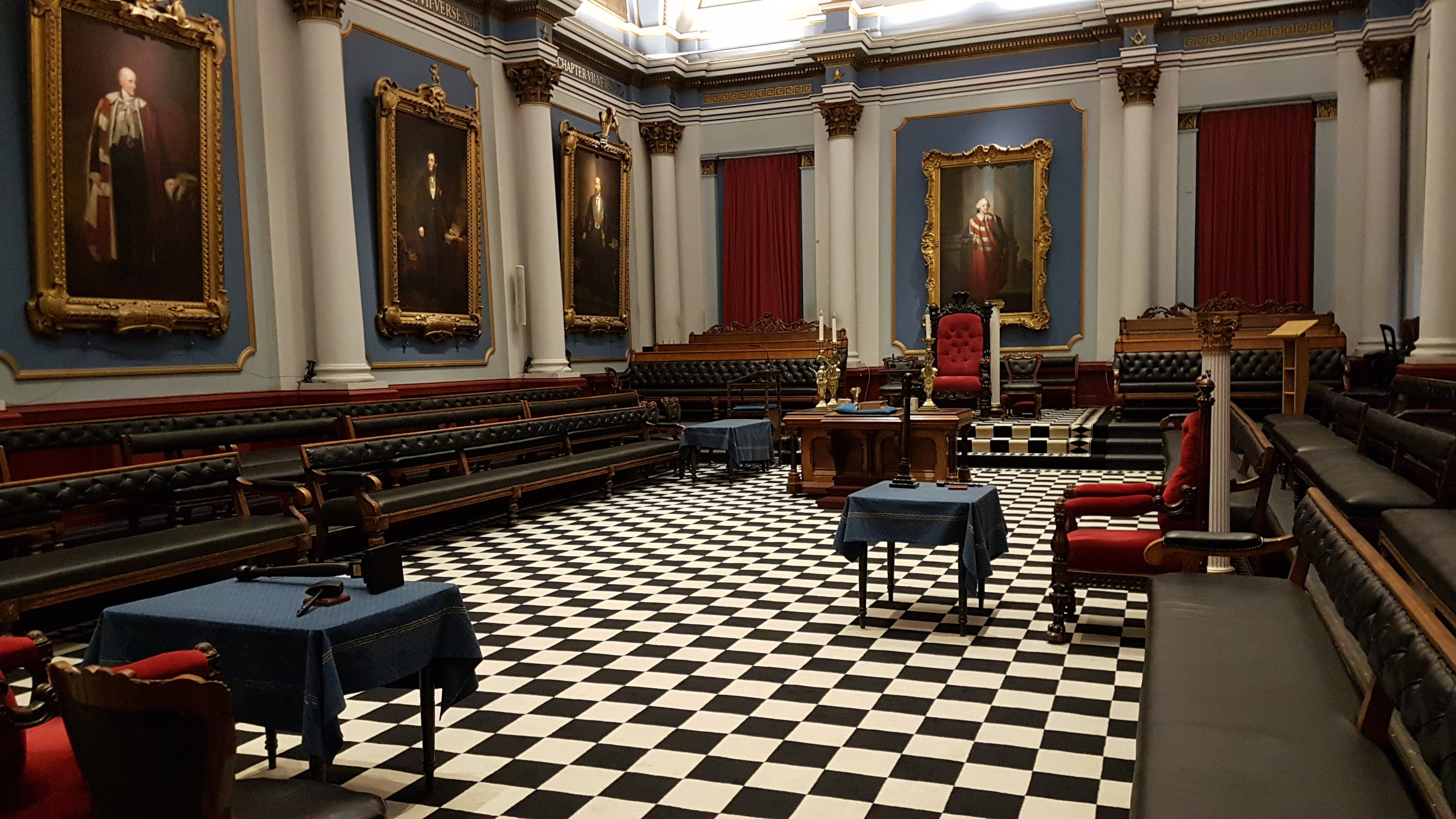 The Grand Lodge of Ireland - the second most senior Grand Lodge of Freemasons in the world, and the oldest in continuous existence. Located in Dublin, Ireland.